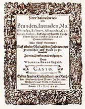 Cover page of "Newe ausserlesene liebliche Branden" by the English composer William Brade (1560-1630)